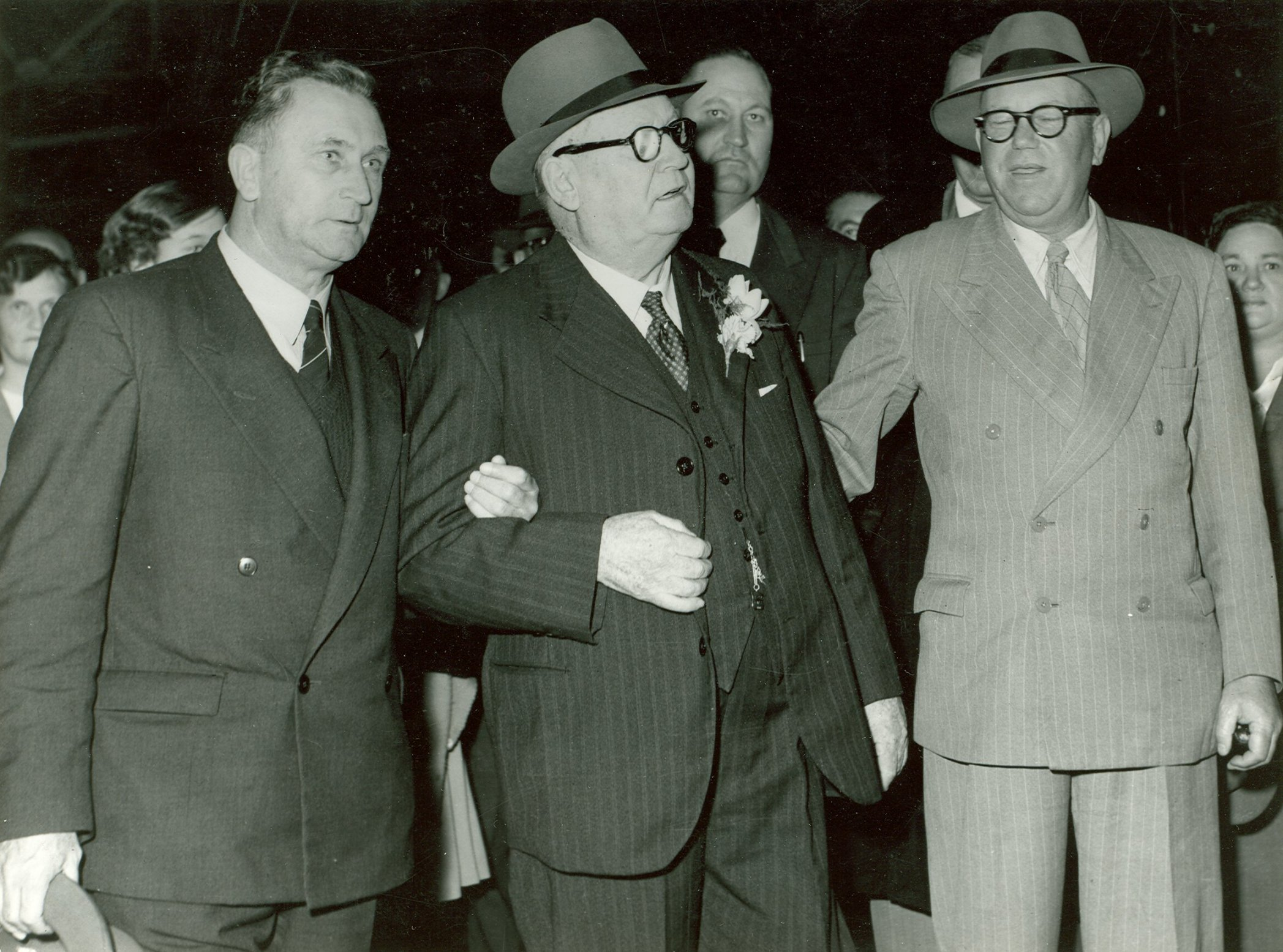 J.G. Strijdom, D.F. Malan and P.O. Sauer, 1948